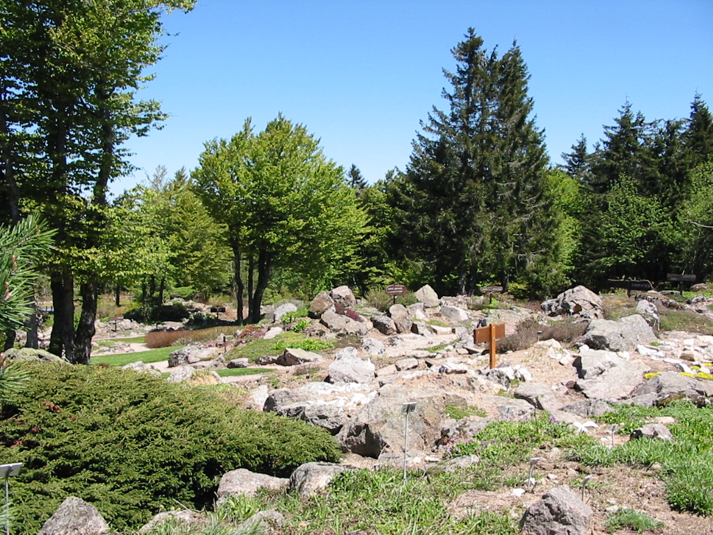 Jardin d'altitude du Haut-Chitelet Copyright © Christian Amet